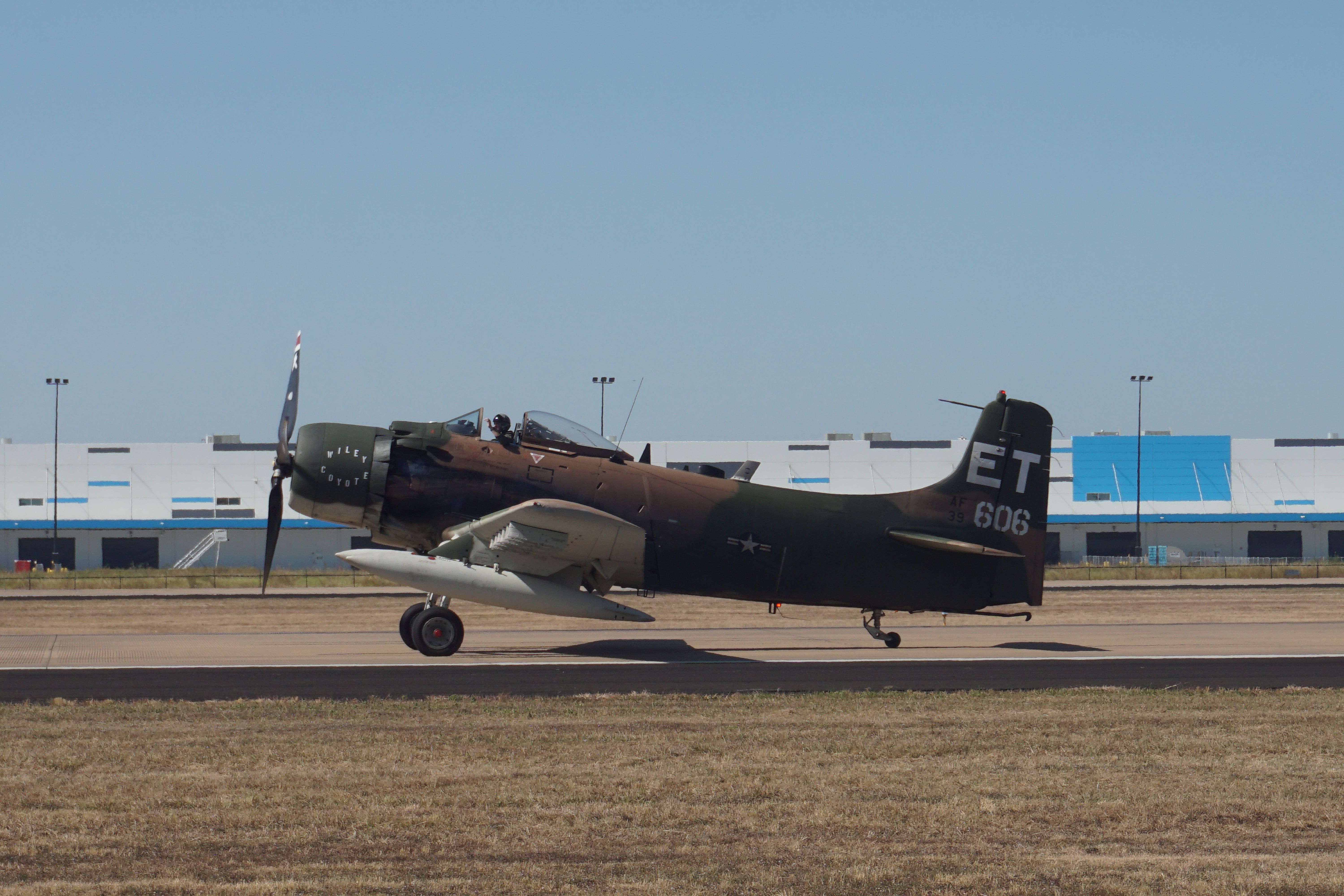 A Douglas A-1 Skyraider at the 2019 Fort Worth Alliance Air Show at Fort Worth Alliance Airport in Fort Worth, Texas (United States).